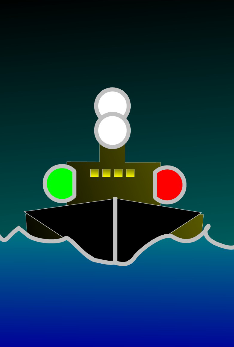 navigation lights